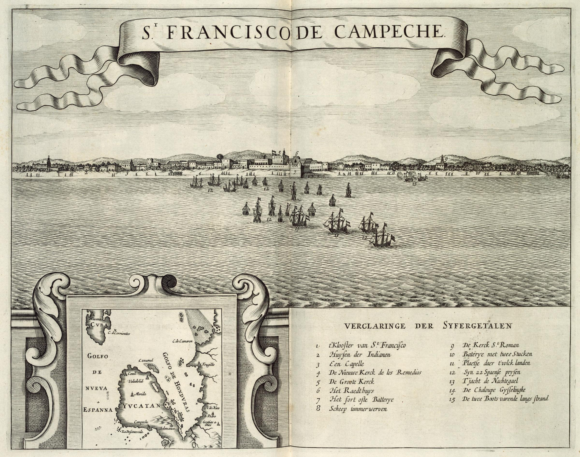 View of St. Francisco de Campeche, depicted in the inset Yucatan and the Gulf of Honduras. St. Francisco de Campeche. Key: 1 t'Klooster / 2 Huysen der Indianen / 3 Een Capelle / 4 De Nieuwe Kerck de los Remedios / 5 De Groote Kerck / 6 Het Raedthuys / 7 het fort ofte Batterye / 8 Scheep timmerwerven / 9 De Kerck St. Roman / Baterye met twee Stucken / 11 Plaetse daer t'volck landen / 12 Syn 22 Spaense prysen / T'jacht de Nachtegael / 14 De Chaloupe Gysselinghe / 15 De twee Boots varende langs strand. The Dutch tricolour is depicted flying from the church, but it is unclear whether, and if so for how long, the region was in the hands of the WIC.